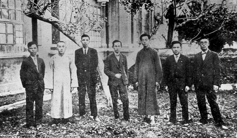 Gu Jiegang (3rd right), together with his peers of the Archaeological Society, Historiography and Linguistics Institute of Sun Yat-sen University, took the photo in 1928.